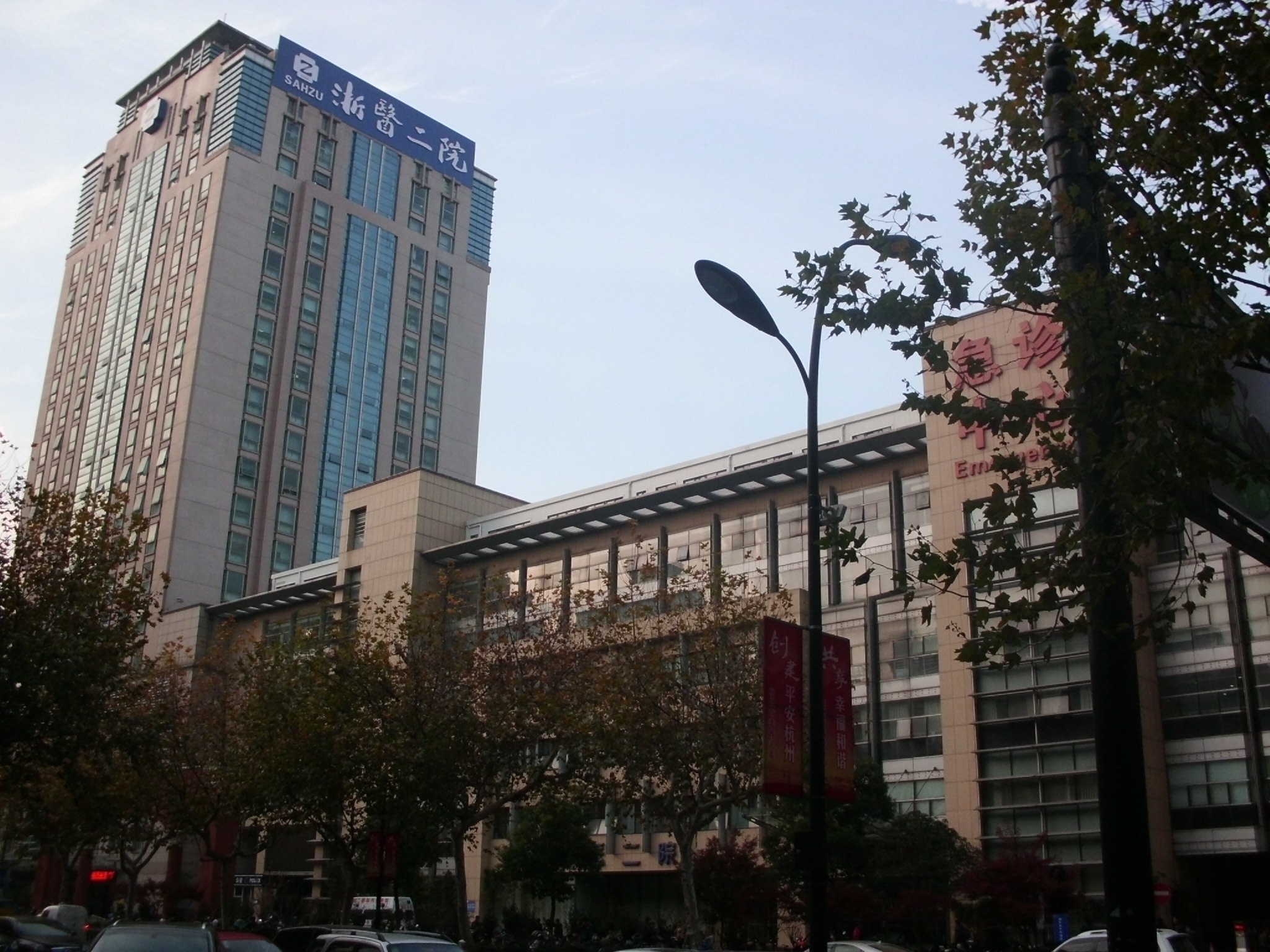 The Second Affiliated Hospital of Zhejiang University School of Medicine